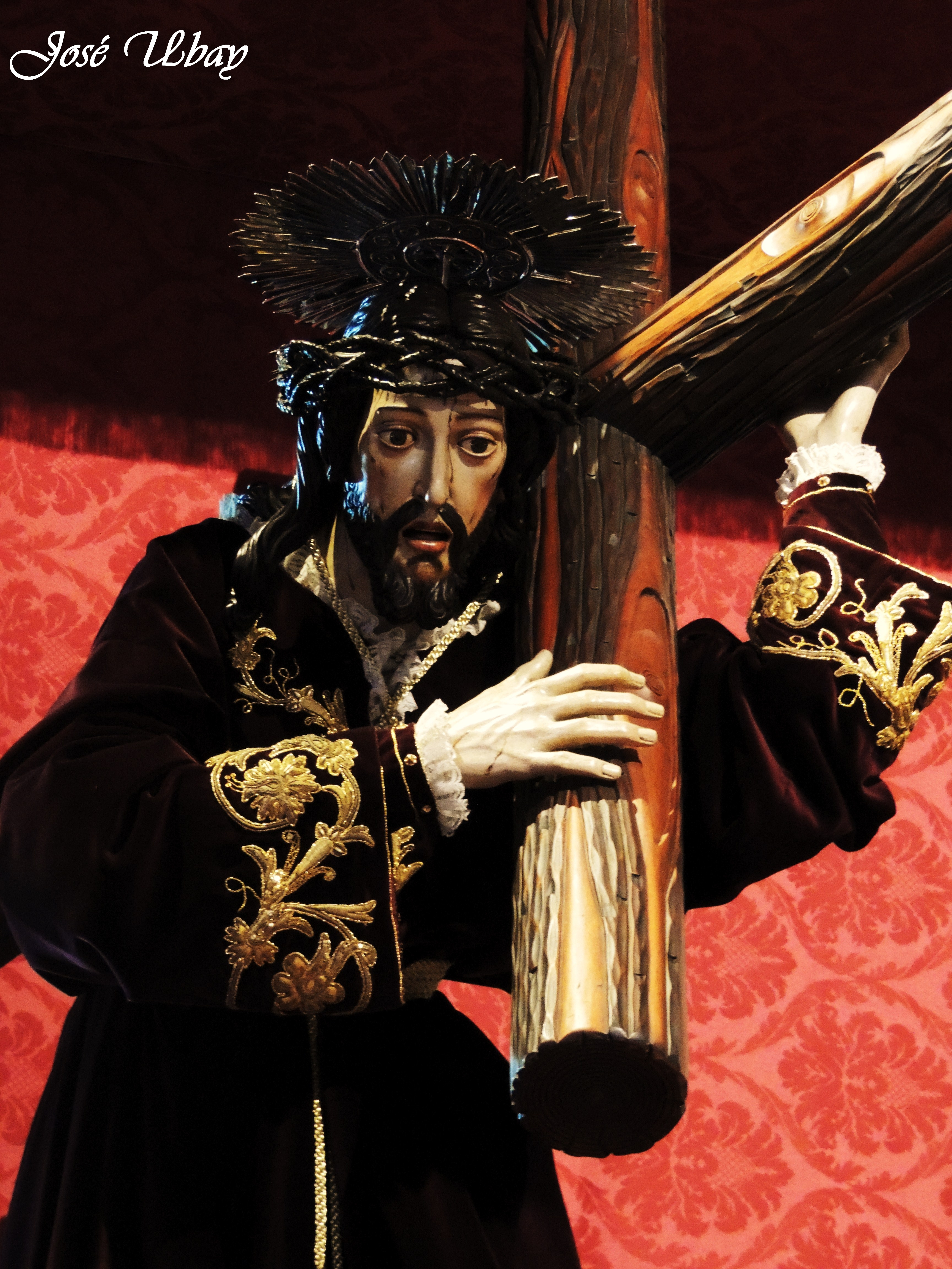 El Nazareno. Martín de Andújar Cantos. Parroquia Matriz de San Marcos Evangelista. Icod de los Vinos, Tenerife.